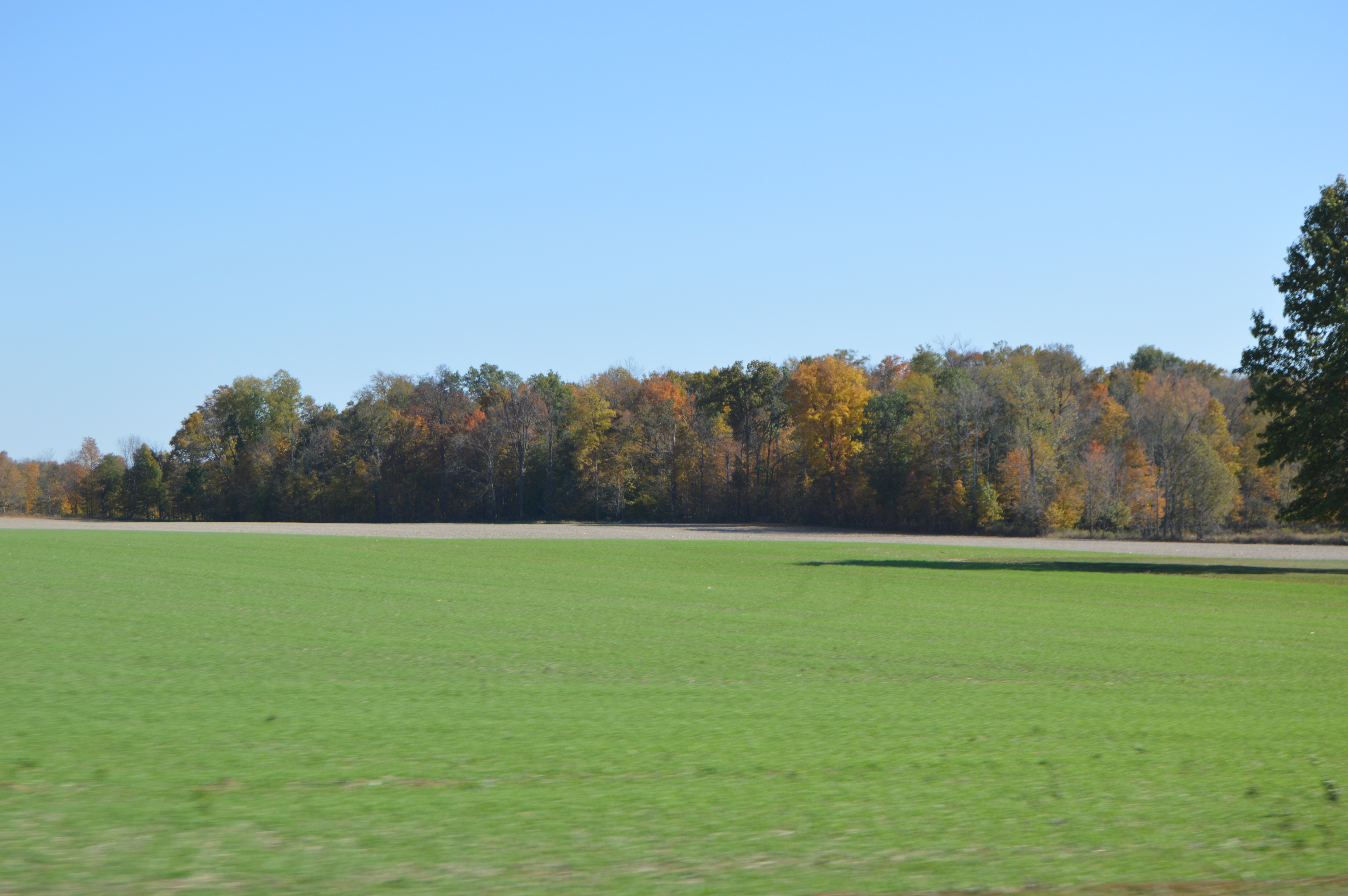 Looking southeast from State Route 231 north of Township Road 43 in northeastern Eden Township, Wyandot County, Ohio, United States. A field of newly-sprouted winter wheat grows in the foreground.